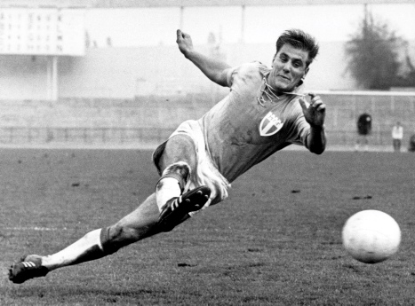 Rolf Eriksson, swedish footballplayer